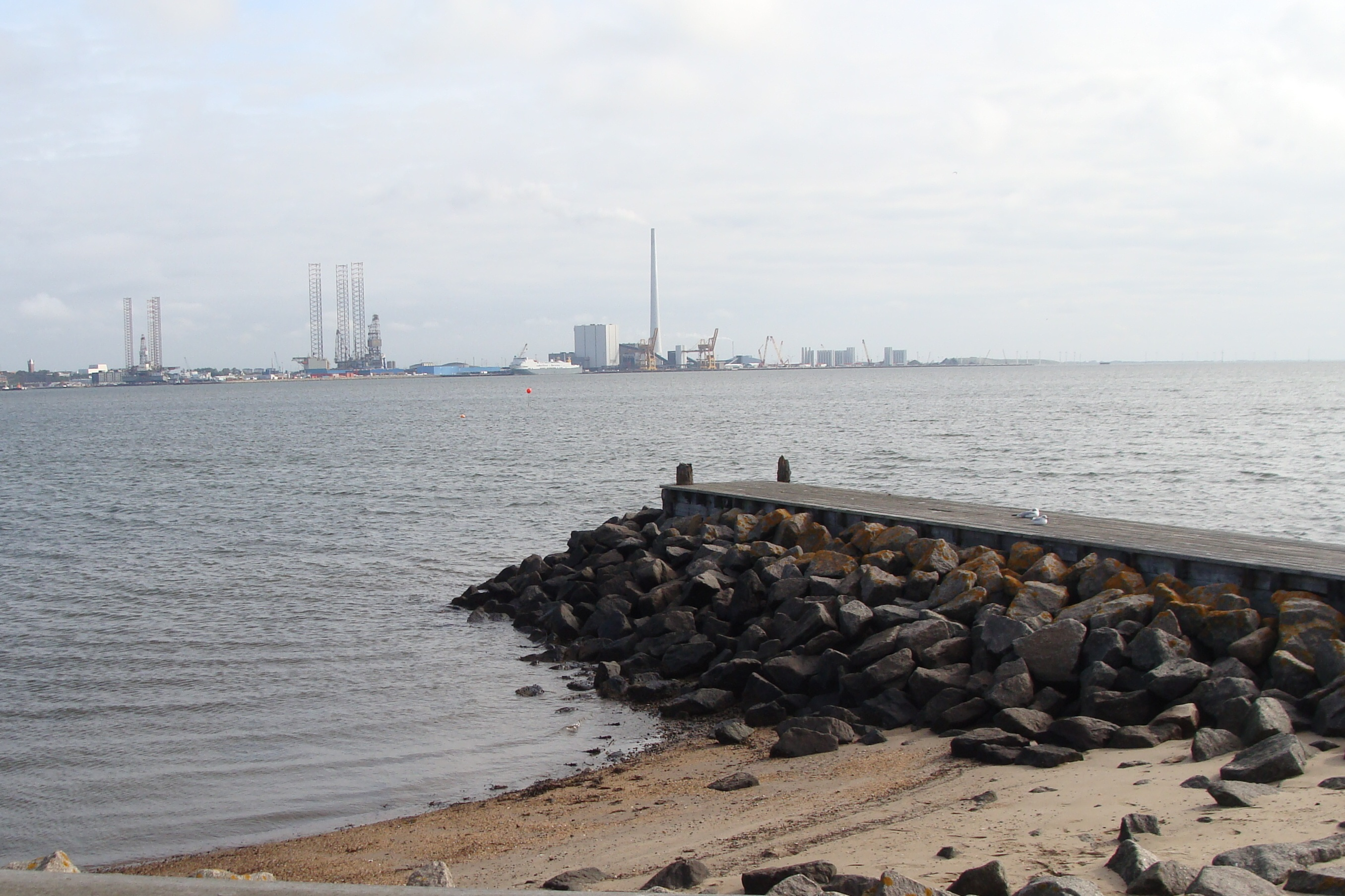 A shore in the Wadden Sea